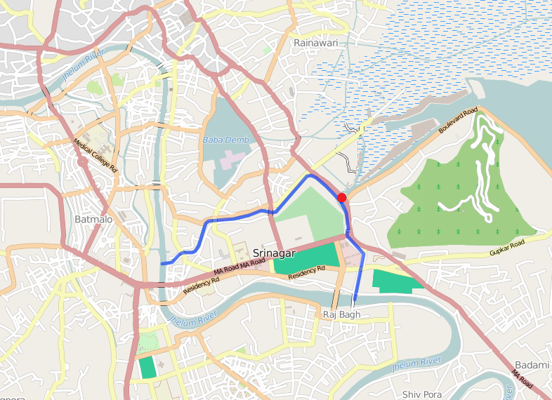 The Tsoont Kol canal in Srinagar highlighted in blue, with the lock at the Dal Lake marked in red. This map may be incomplete, and may contain errors. Don't rely solely on it for navigation.